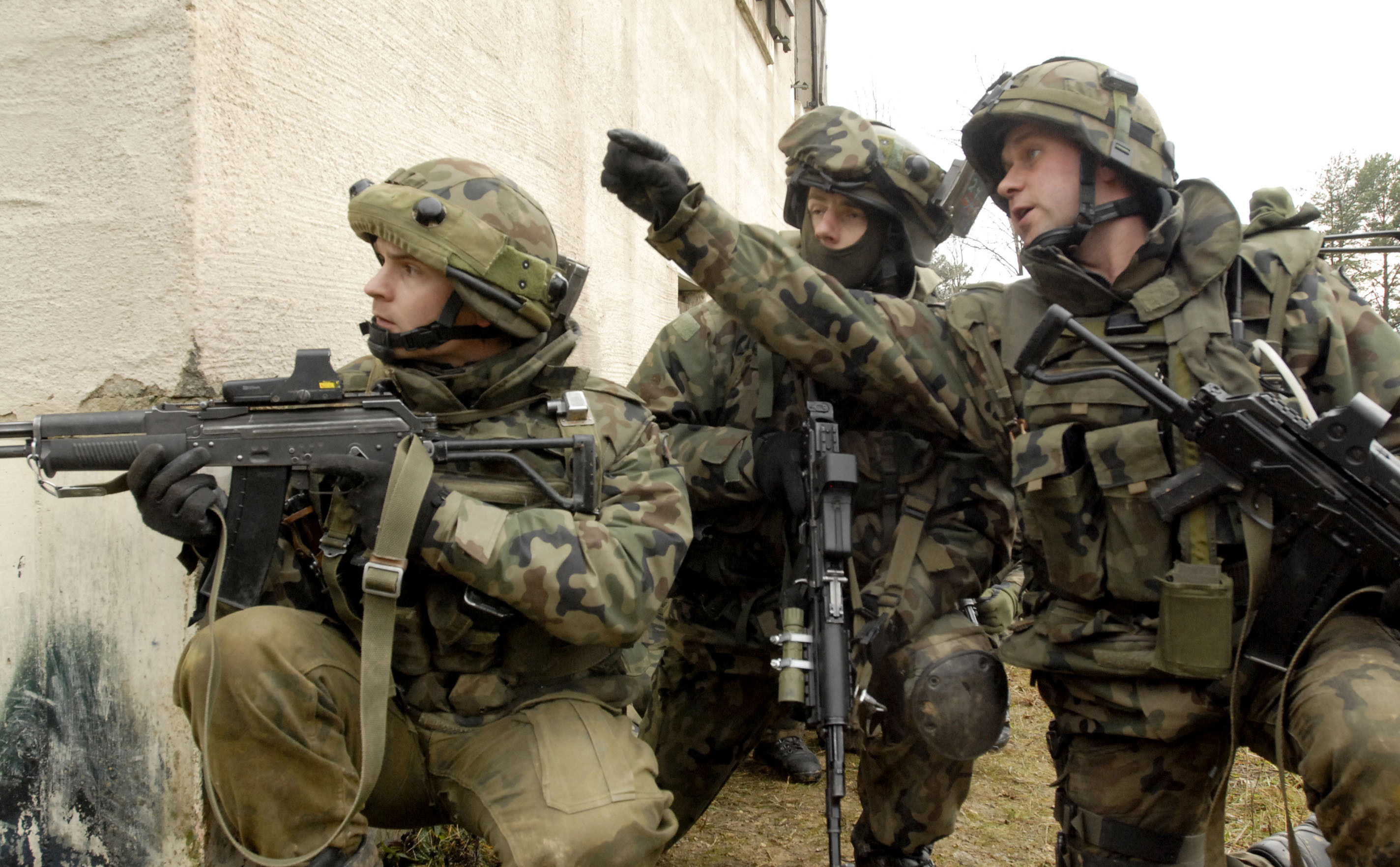 Polish army soldiers of the 18th Airborne Assault Battalion receive orders to advance on a building during a training exercise at the Joint Multinational Readiness Center (JMRC) in Hohenfels, Germany, Dec. 14, 2006. Senior polish military leaders visited approximately 500 of their soldiers who are training at the JMRC in preparation for their country's first-ever deployment to Afghanistan.